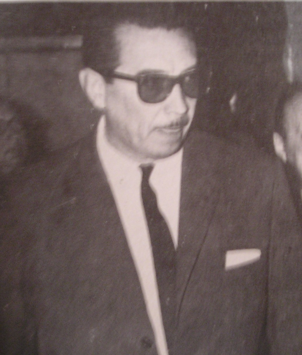 Andres Framini. Unionist. Argentina. CGT Andrés Framini. Sindicalista. Argentina. CGT